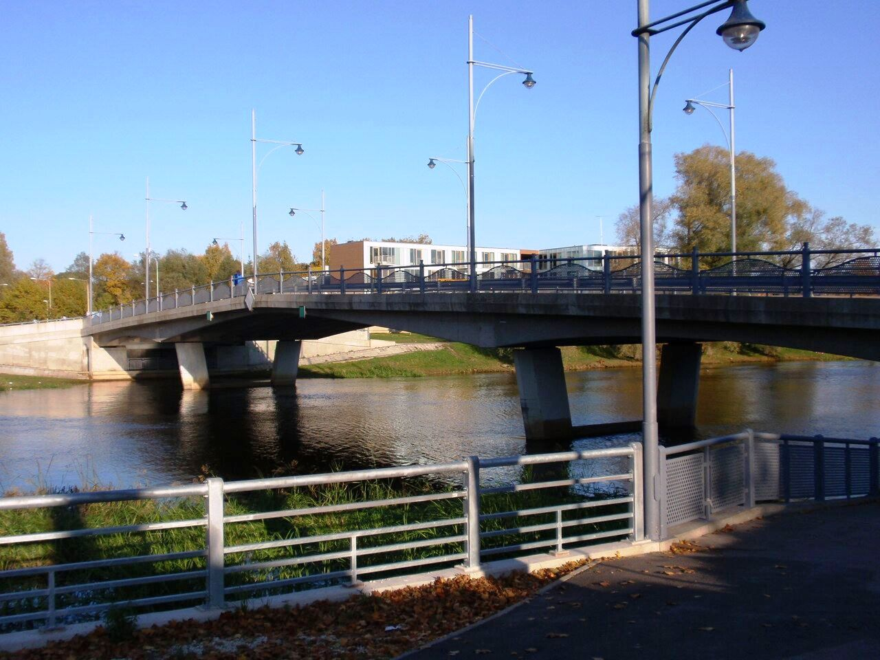 Kroonuaia sild over Emajõgi in Tartu, 2008